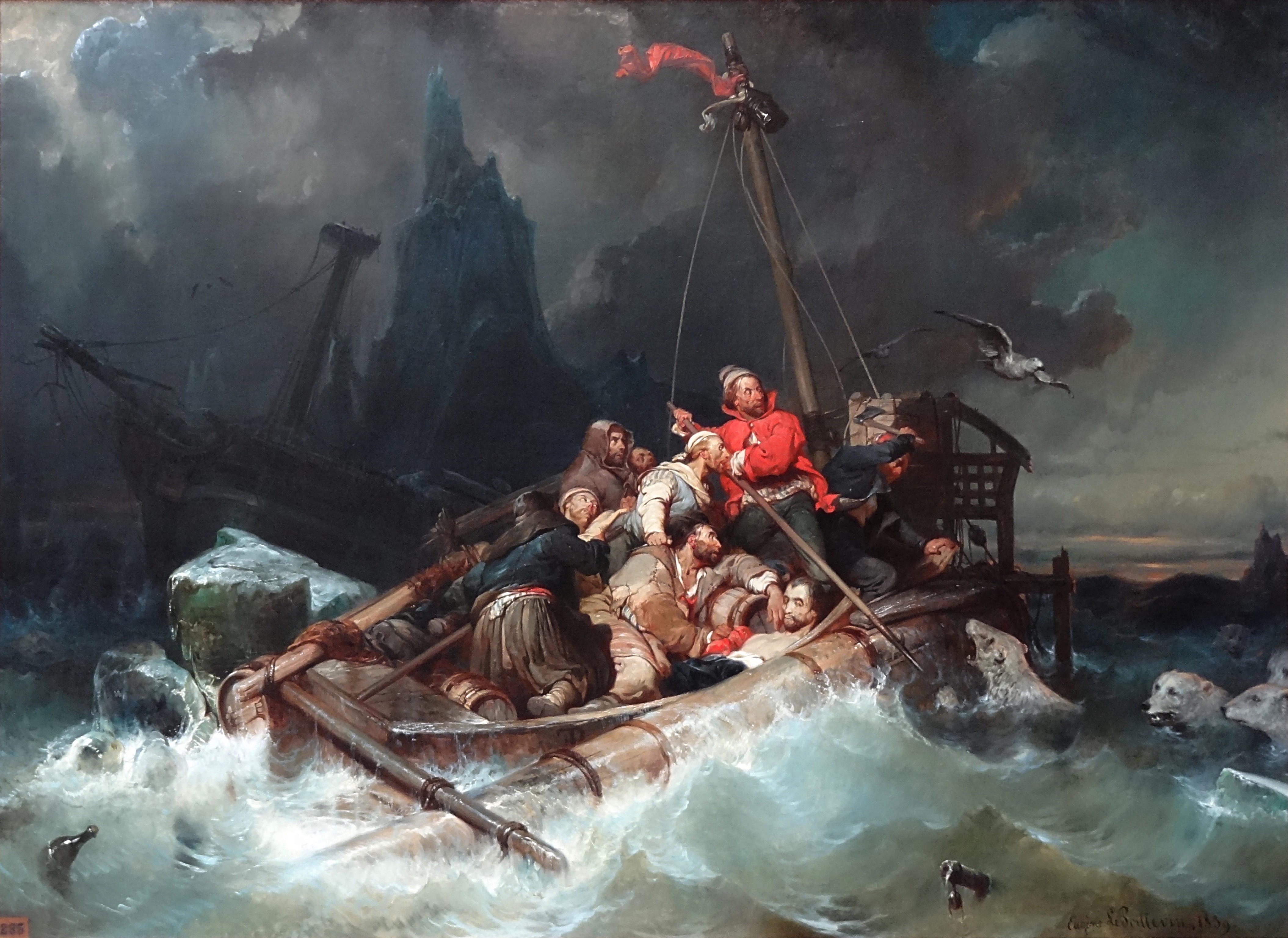 "Les naufragés", Eugène Lepoittevin, 1839. Les naufragés sont aux prises avec des ours dans les vagues. Musée des beaux-arts d'Amiens.